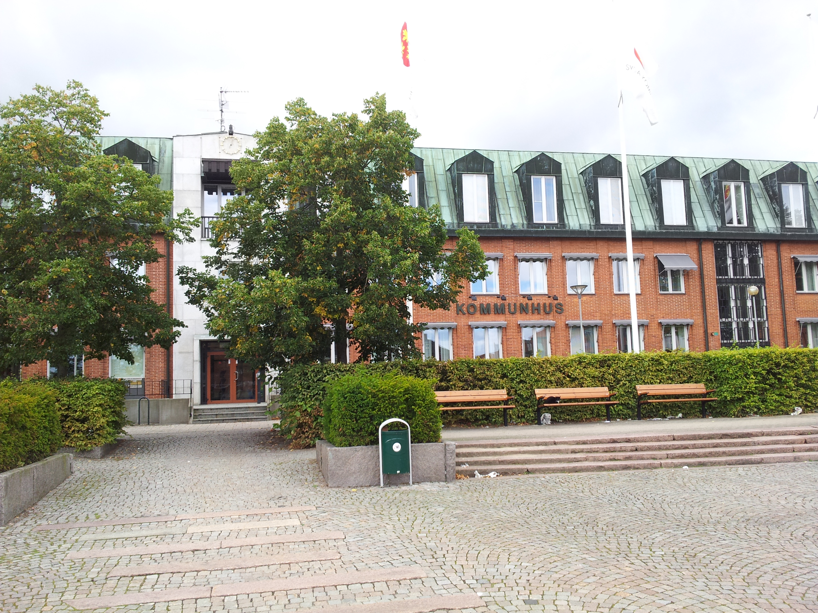 Svedala municipal building